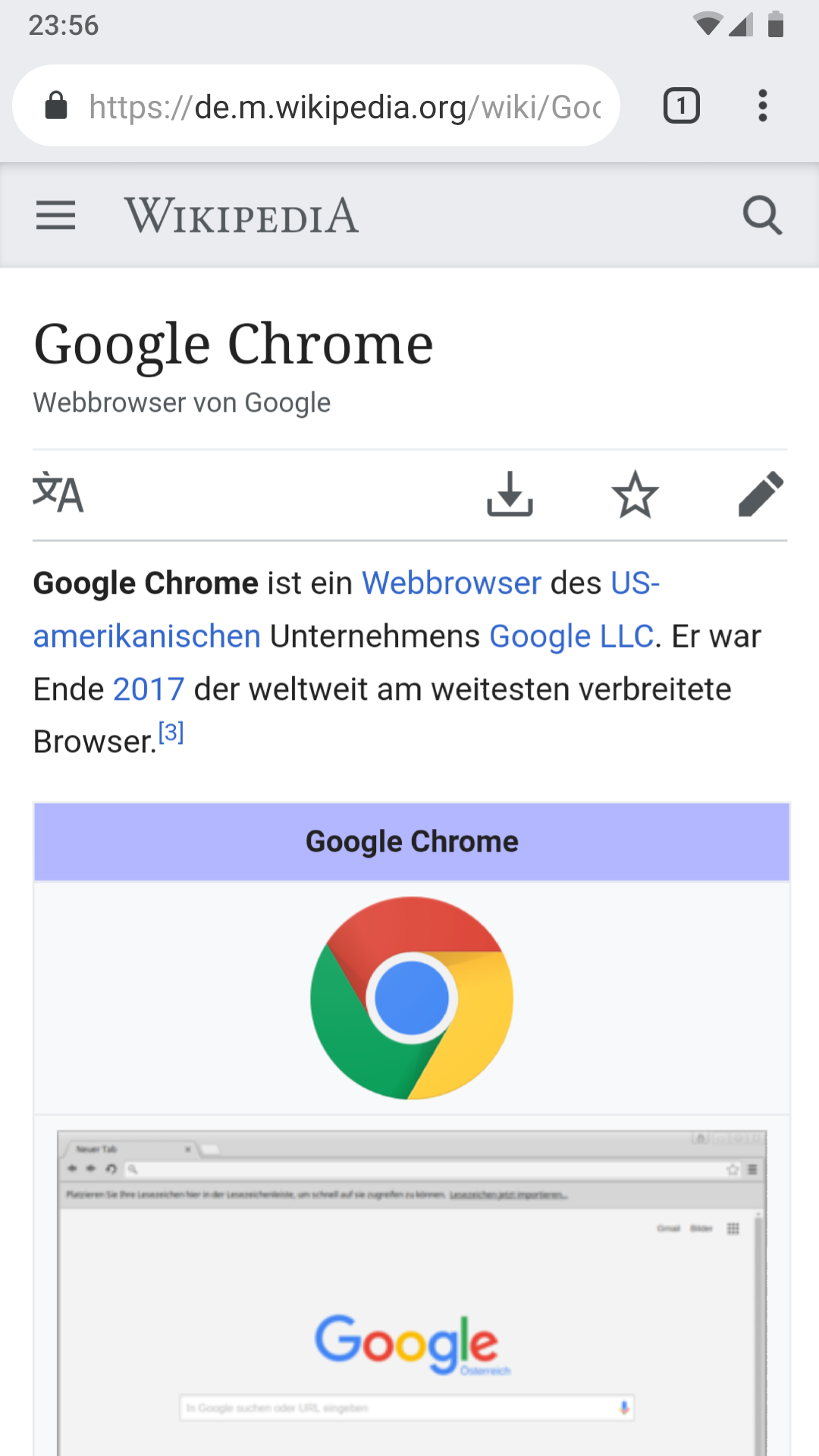 Screenshot of Google Chrome version 70 running on Android 9.0